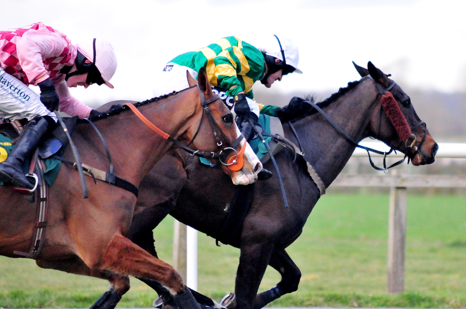 AP and Jason Maguire battle it out at Bangor On Dee Race Course (AP on I'm The Decider' and Maguire on Mortimers Cross)